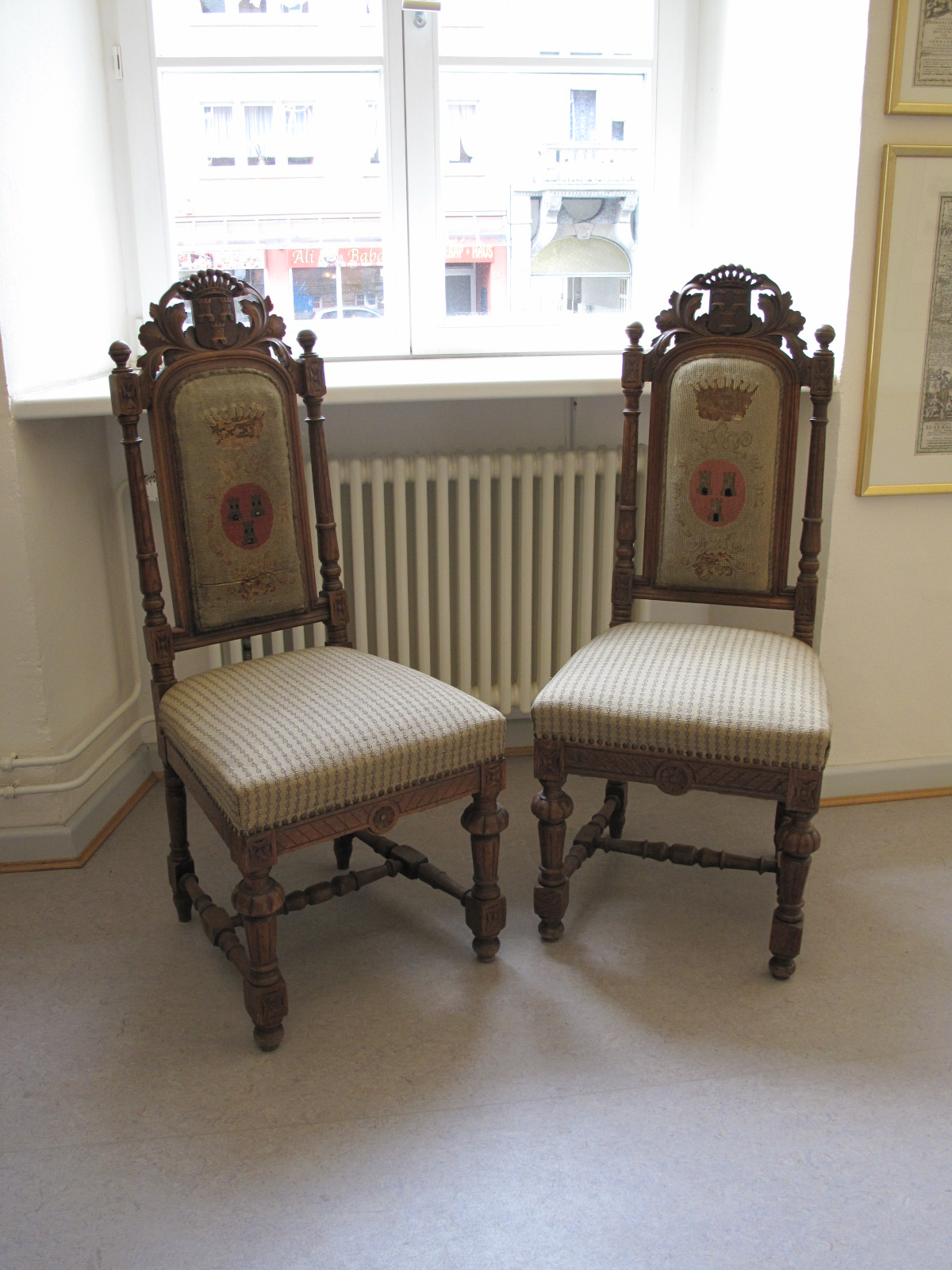 A pair of chairs embroidered and carved with the coat of arms of the Saintignon family, ca. 1890. Originally of the Wolsfeld Manor House (Rhineland-Palatinate). Kreismuseum Bitburg-Prüm, Bitburg.